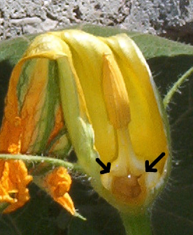 Cucurbita maxima commercial seed name "Zapallo Redondo Gris Plomo" (Argentina) - masculine (male, staminate) flower, some petals and 1 filament removed. Arrows indicating 2 "nectary pores" between filaments, inside them a cavity where the nectary disk secreting nectar is. There are no carpels on this flower. Partido de Rivadavia, provincia de Buenos Aires, Argentina.